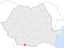 Location of Dăbuleni in Romania.